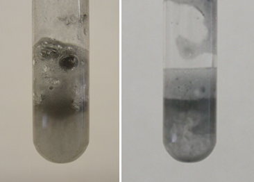 Amphotheric character of aluminum: vigourious reaction with sodium hydroxide (left) and hydrogen chloride (right)